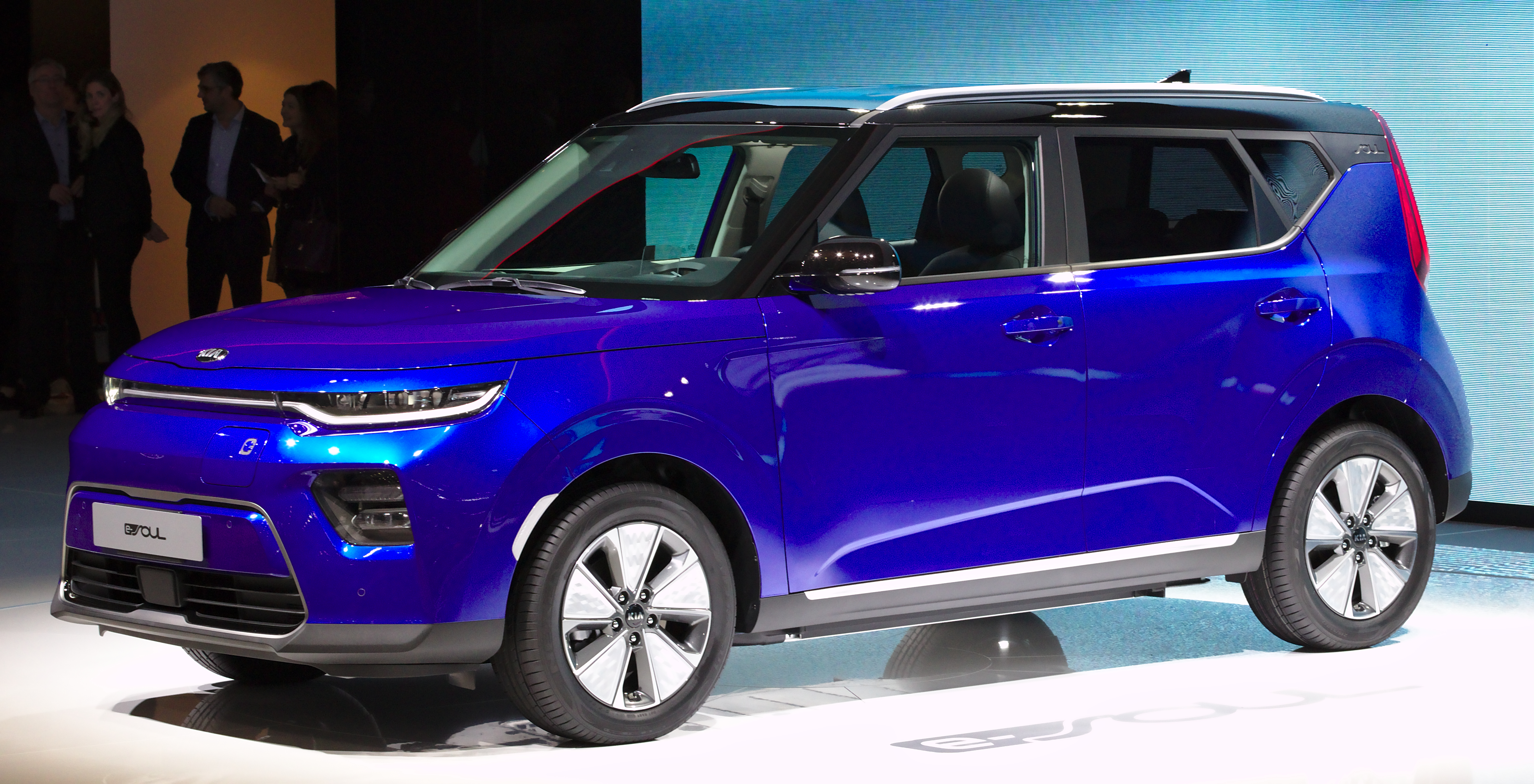 Kia e-Soul at Geneva Motor Show 2019